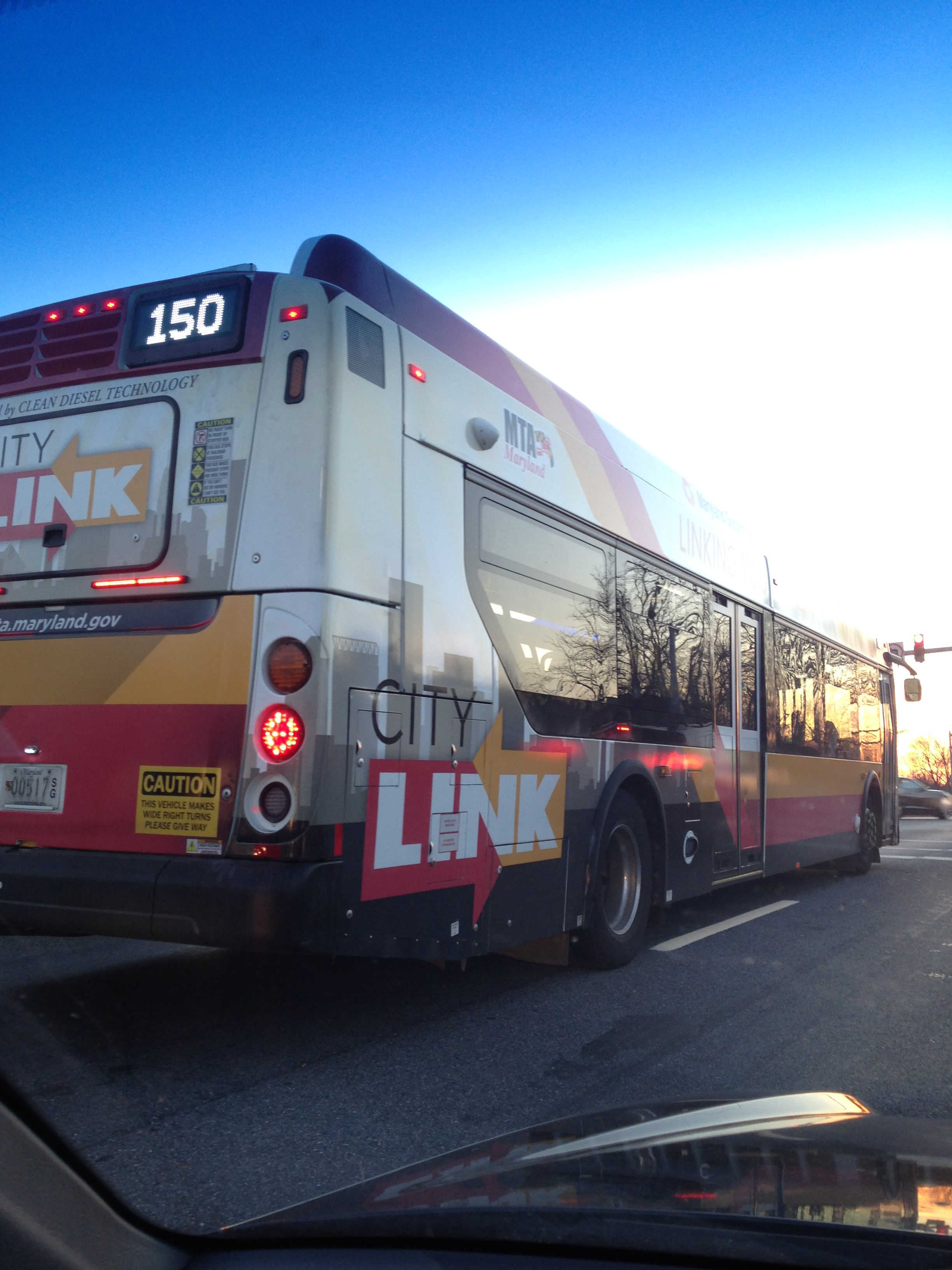 Bus on MTA Route 150 on Route 40 in Ellicott City, MD with the new BaltimoreLink livery.